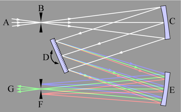 A diagram of a Czerny-Turner monochromator. Light (A) is focused onto an entrance slit (B) and is collimated by a curved mirror (C). The collimated beam is diffracted from a rotatable grating (D) and the dispersed beam re-focussed by a second mirror (E) at the exit slit (F). Each wavelength of light is focussed to a different position at the slit, and the wavelength which is transmitted through the slit (G) depends on the rotation angle of the grating.